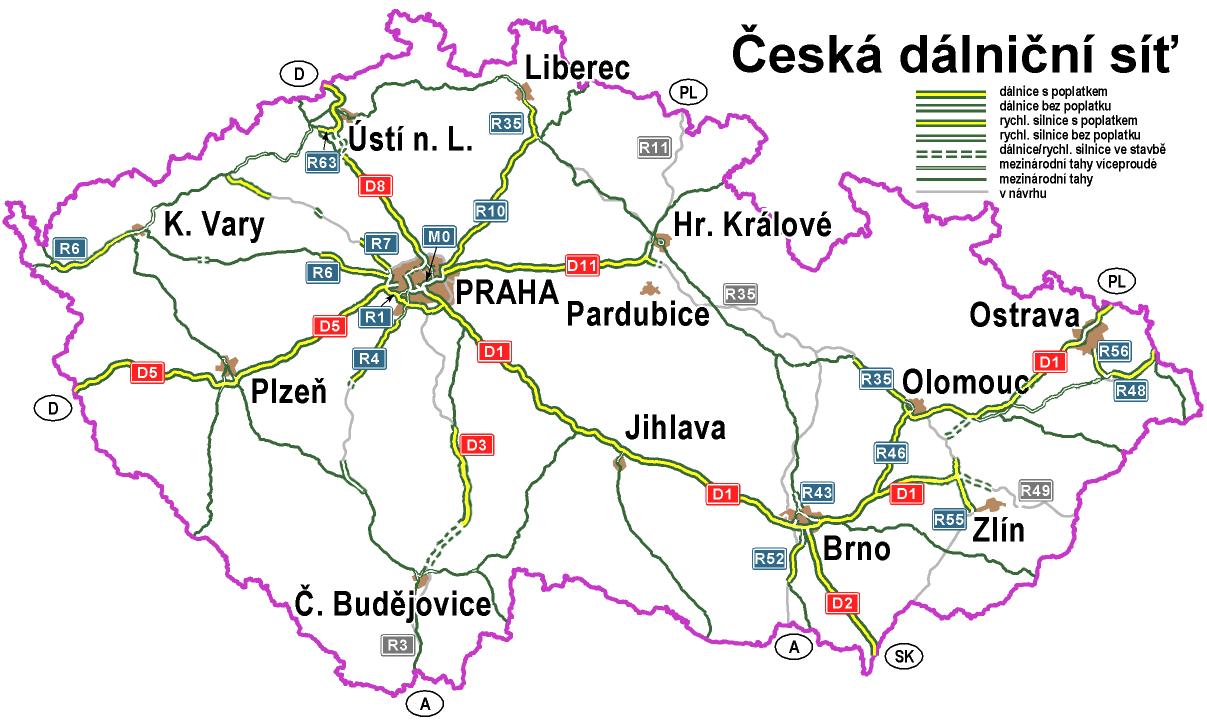 Czech highways (dálnice), dual carriageways (rychl. silnice) and international roads (mezinárodní tahy)